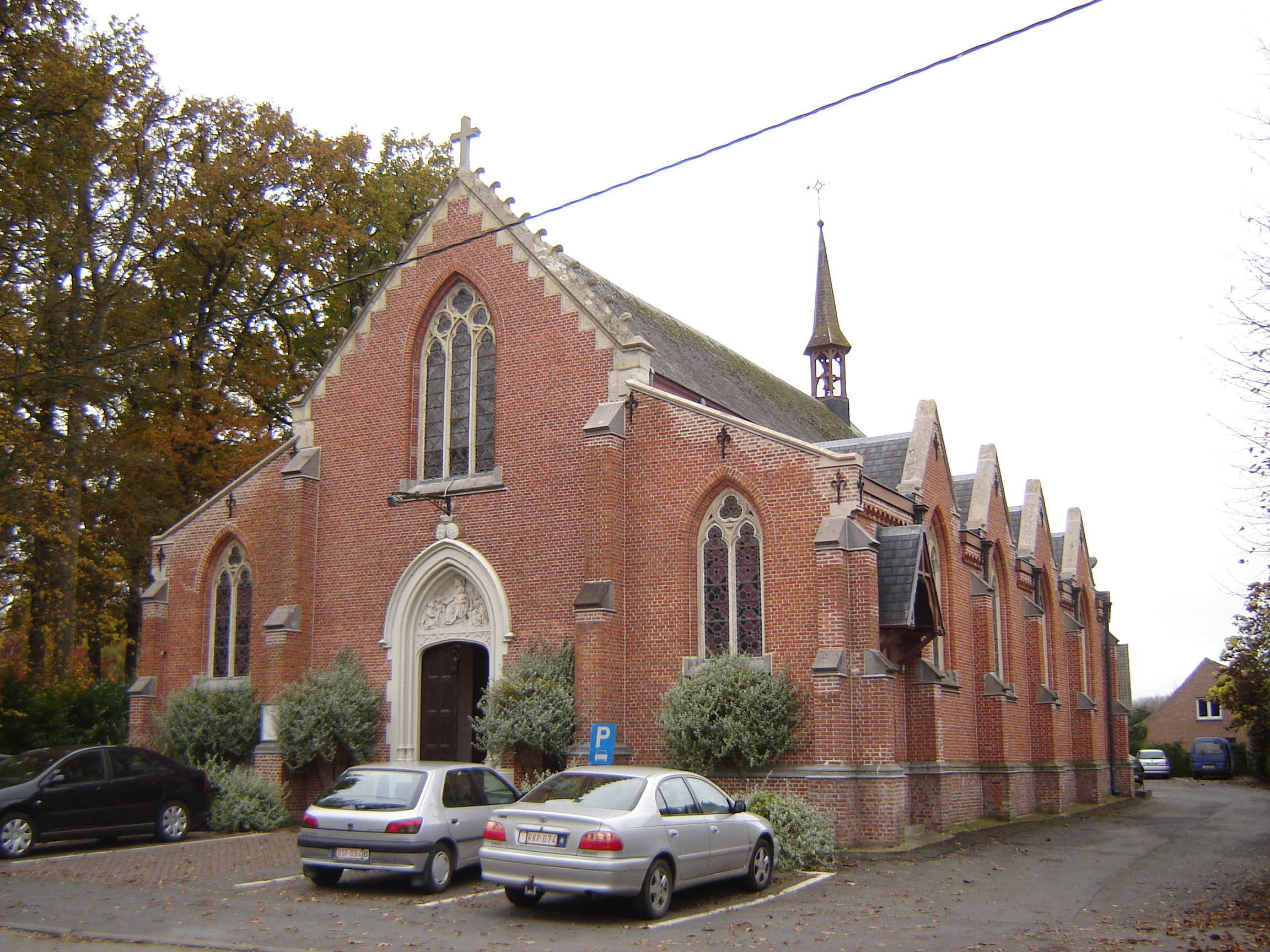 Church of Saint Georges in Wildenburg. Wildenburg, Wingene, West Flanders, Belgium